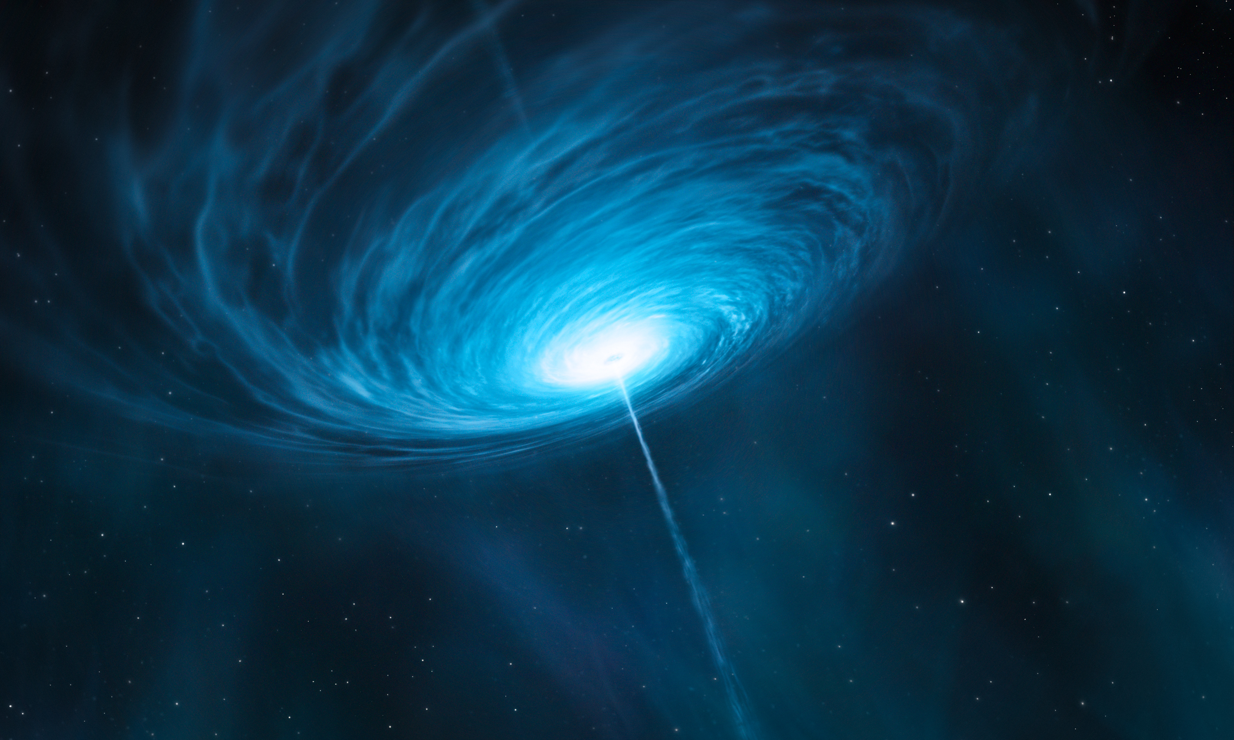 This is an artist’s impression of the quasar 3C 279. Astronomers connected the Atacama Pathfinder Experiment (APEX), in Chile, to the Submillimeter Array (SMA) in Hawaii, USA, and the Submillimeter Telescope (SMT) in Arizona, USA for the first time, to make the sharpest observations ever, of the centre of a distant galaxy, the bright quasar 3C 279. Quasars are the very bright centres of distant galaxies that are powered by supermassive black holes. This quasar contains a black hole with a mass about one billion times that of the Sun, and is so far from Earth that its light has taken more than 5 billion years to reach us. The team were able to probe scales of less than a light-year across the quasar — a remarkable achievement for a target that is billions of light-years away.